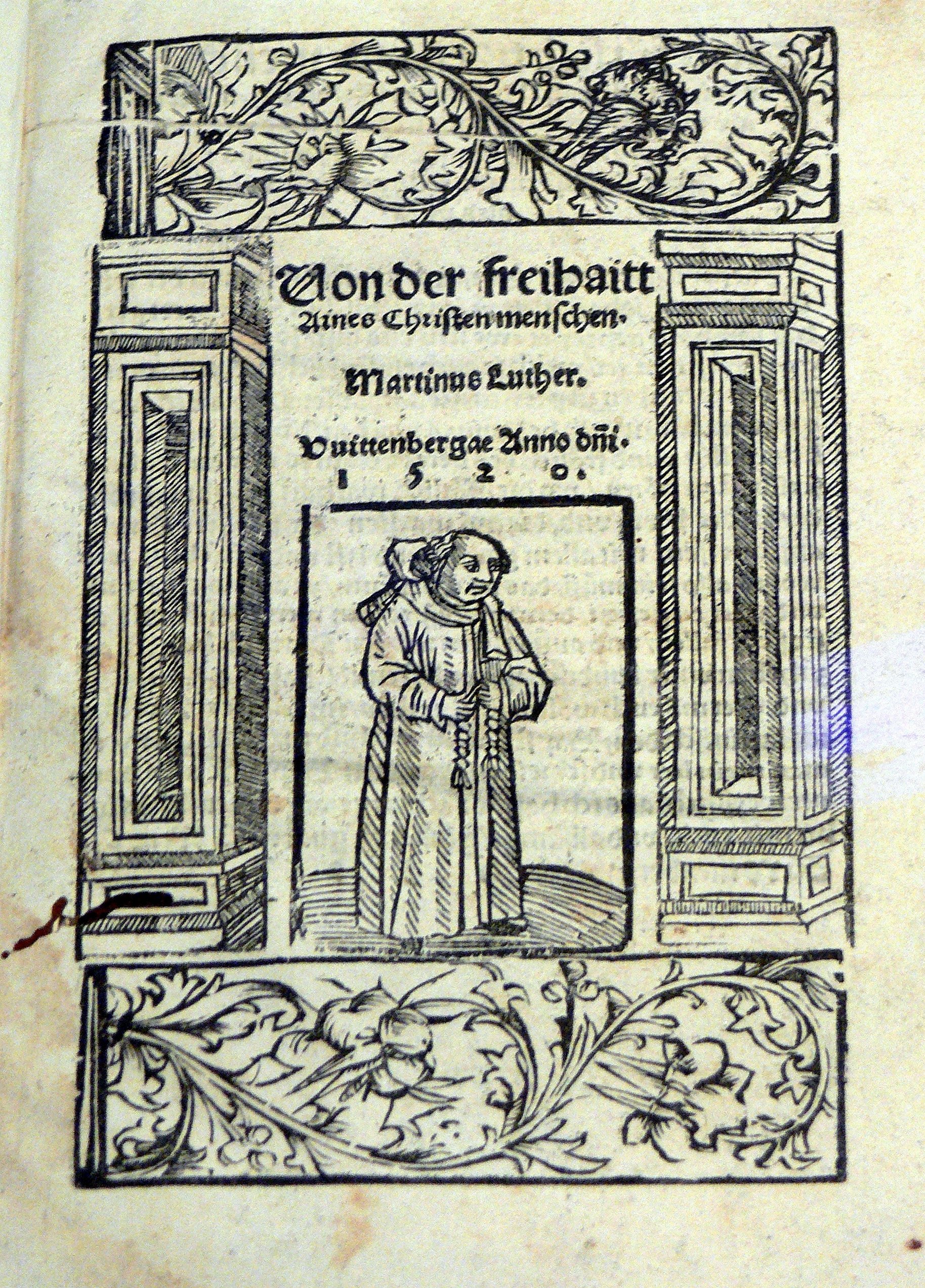 "About the liberty of Christian man" by Martin Luther. Printed by Jörg Nadler, Nuremberg, 1520 (Austrian National Library, Sign. *35.R.181)